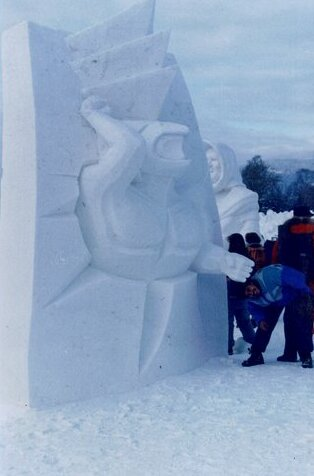 1 Abel Ramírez Águilar with snow sculpture "Los Latinoamericanos construyemos el Siglo XXI" at the 1994 Winter Olympics in Lilehammer, Norway. Ramirez was captain of team with Albino Luna and Rafael Bernal